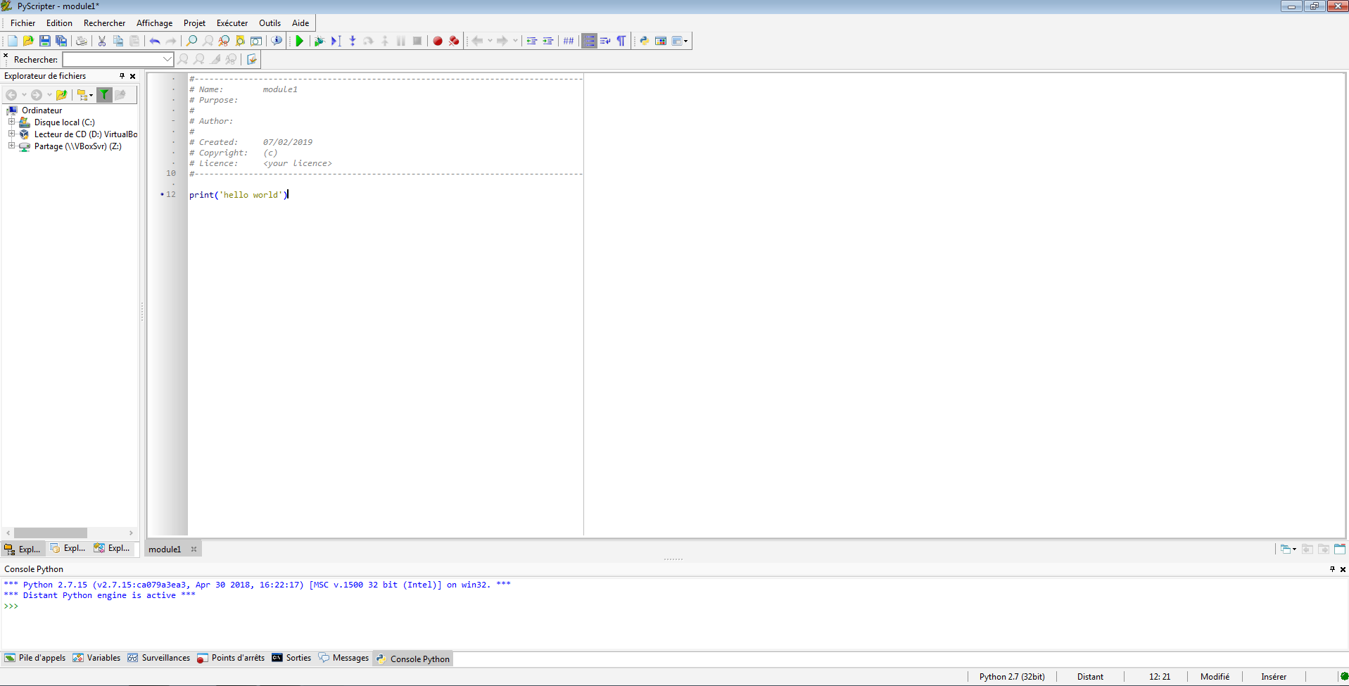 Interface of the free software PyScripter encoded in Python.